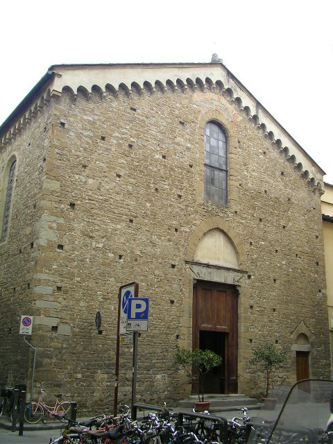 San Remigio church facade in Florence, Italy